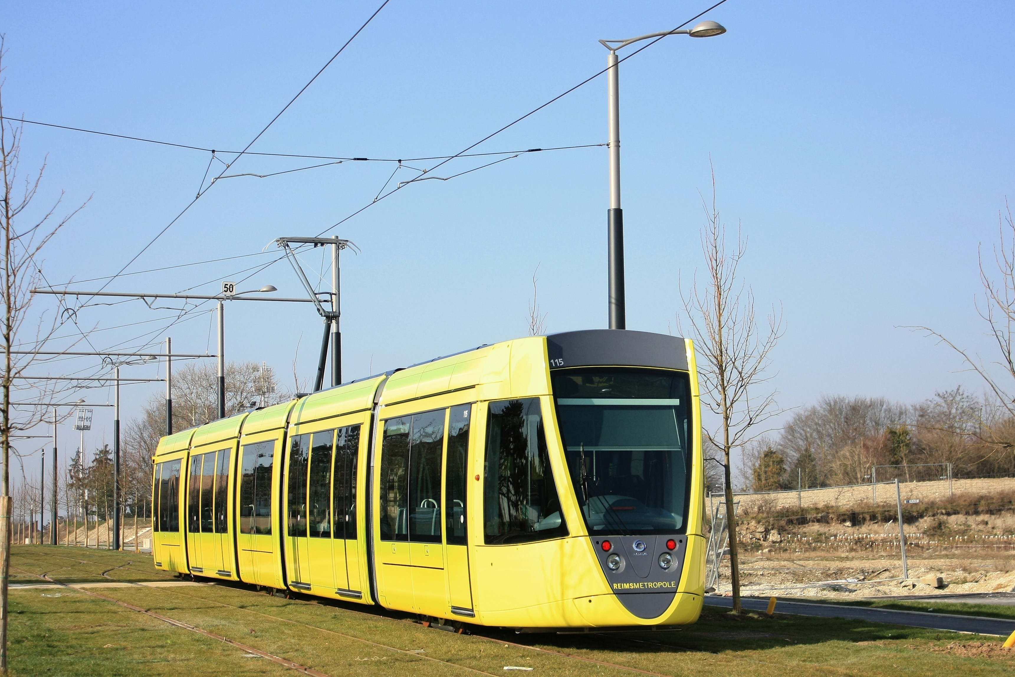 Alstom Citadis TGA 302 TORA on test. Rheims France.